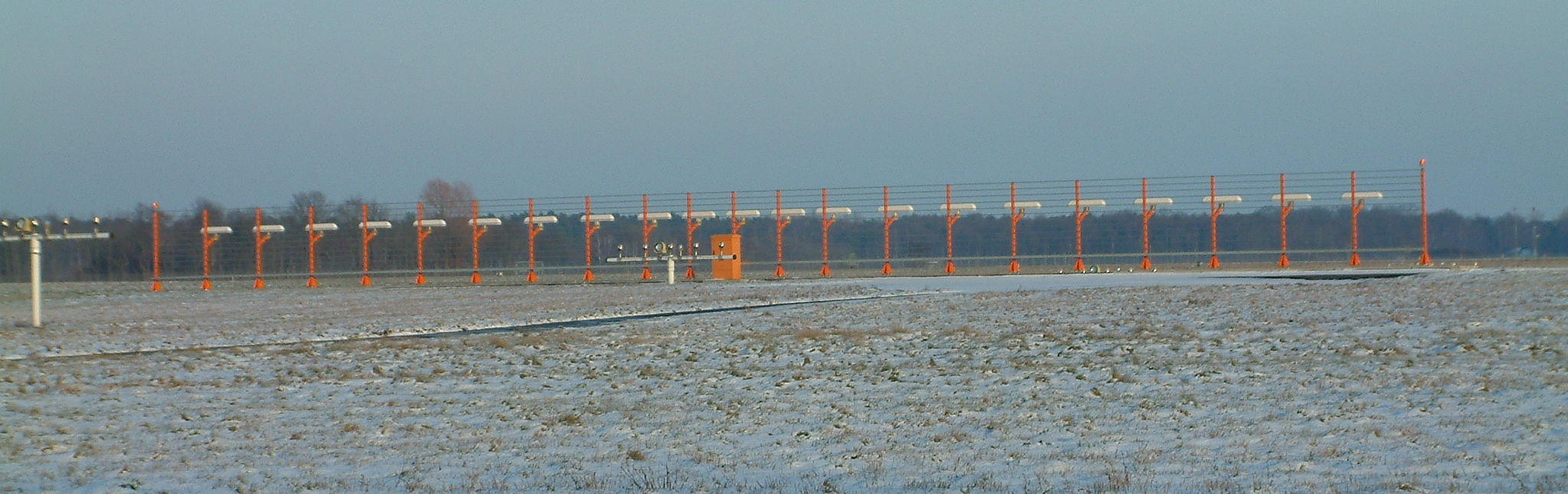 ILS Localizer 21-element dipole reflector antenna array, Runway 27R, EDDV Hanover/Langenhagen International Airport. The picture shows the back of the antenna system.